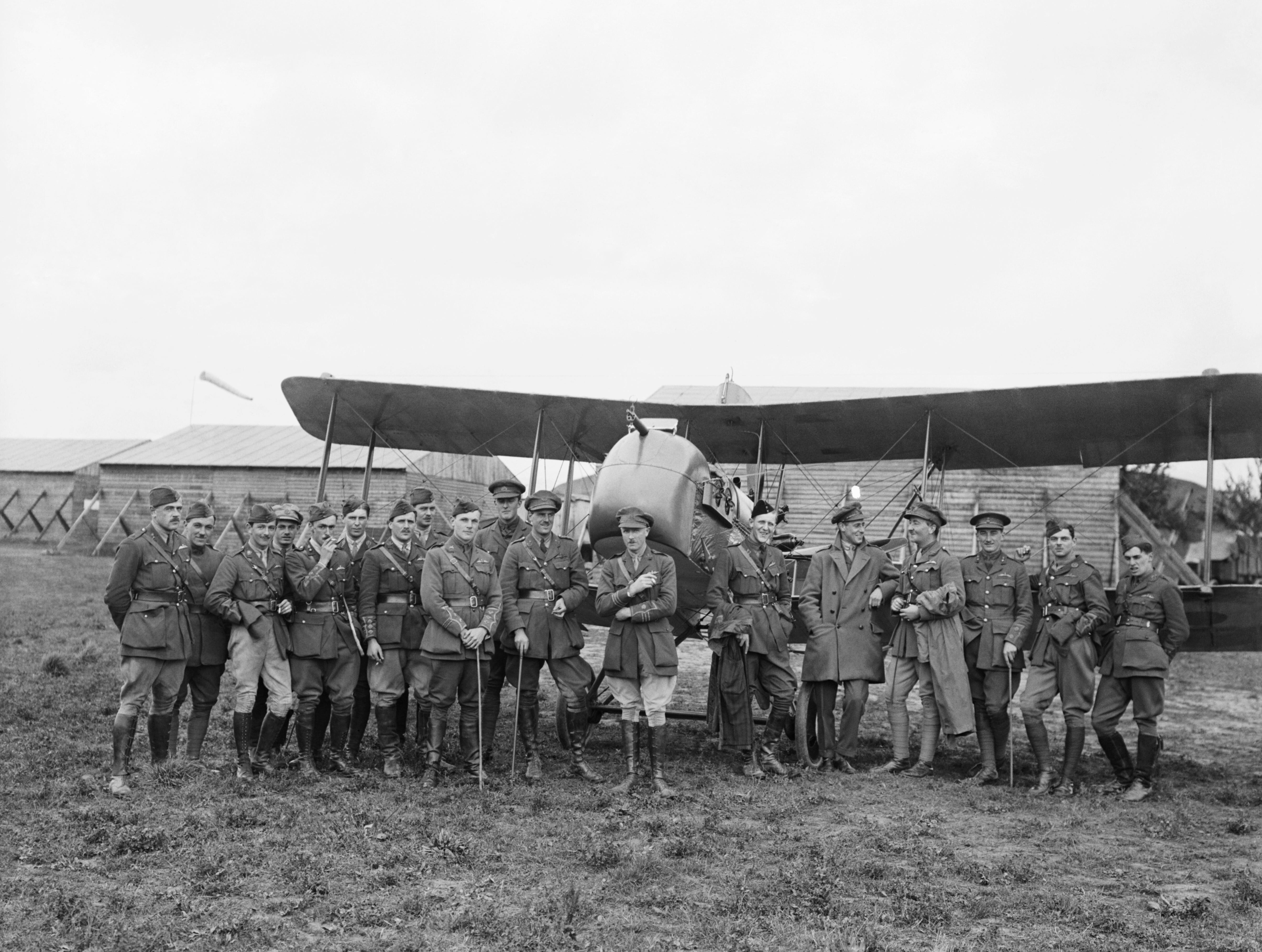 The Royal Flying Corps on the Western Front, 1914-1918 Group of pilots of No. 32 Squadron RFC, Beauval, 1916 (Fourth Army aircraft park). Behind them is an Airco DH.2 (De Havilland Scout) biplane with Monosoupape Rotary Engine.